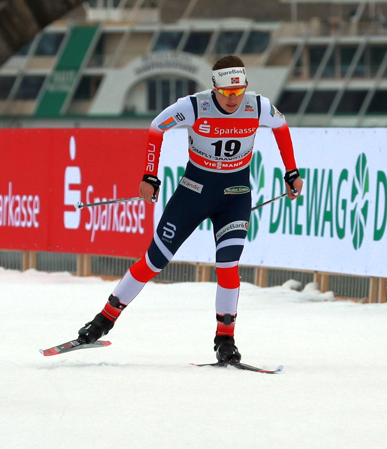 Womens Prolog at the FIS Cross-Country World Cup Dresden 2018: Tiril Udnes Weng